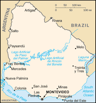 Map of Uruguay Categories:Uruguay